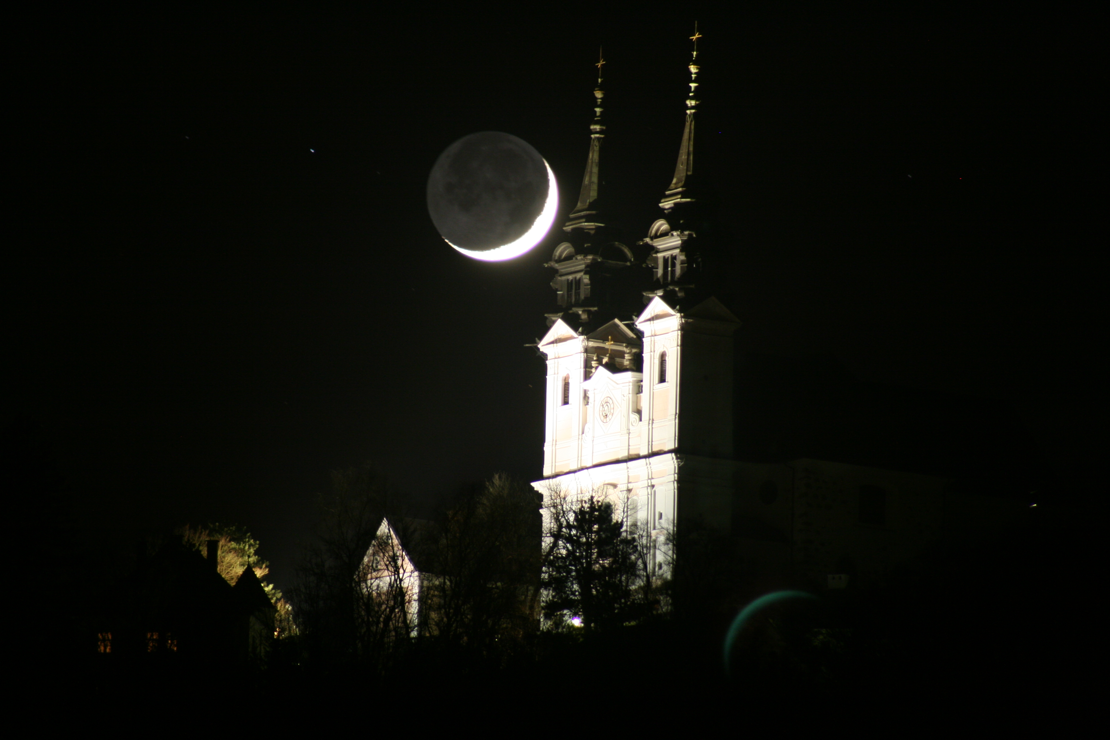 Kath. Filialkirche Sieben Schmerzen Mariä